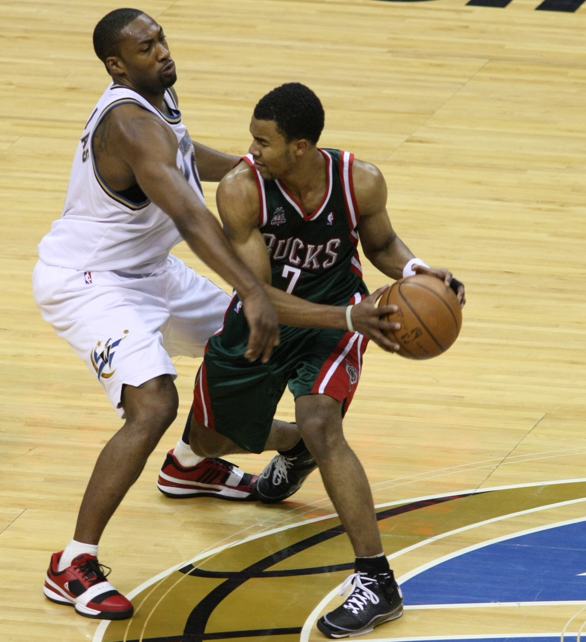 Ramon Sessions defended by Gilbert Arenas